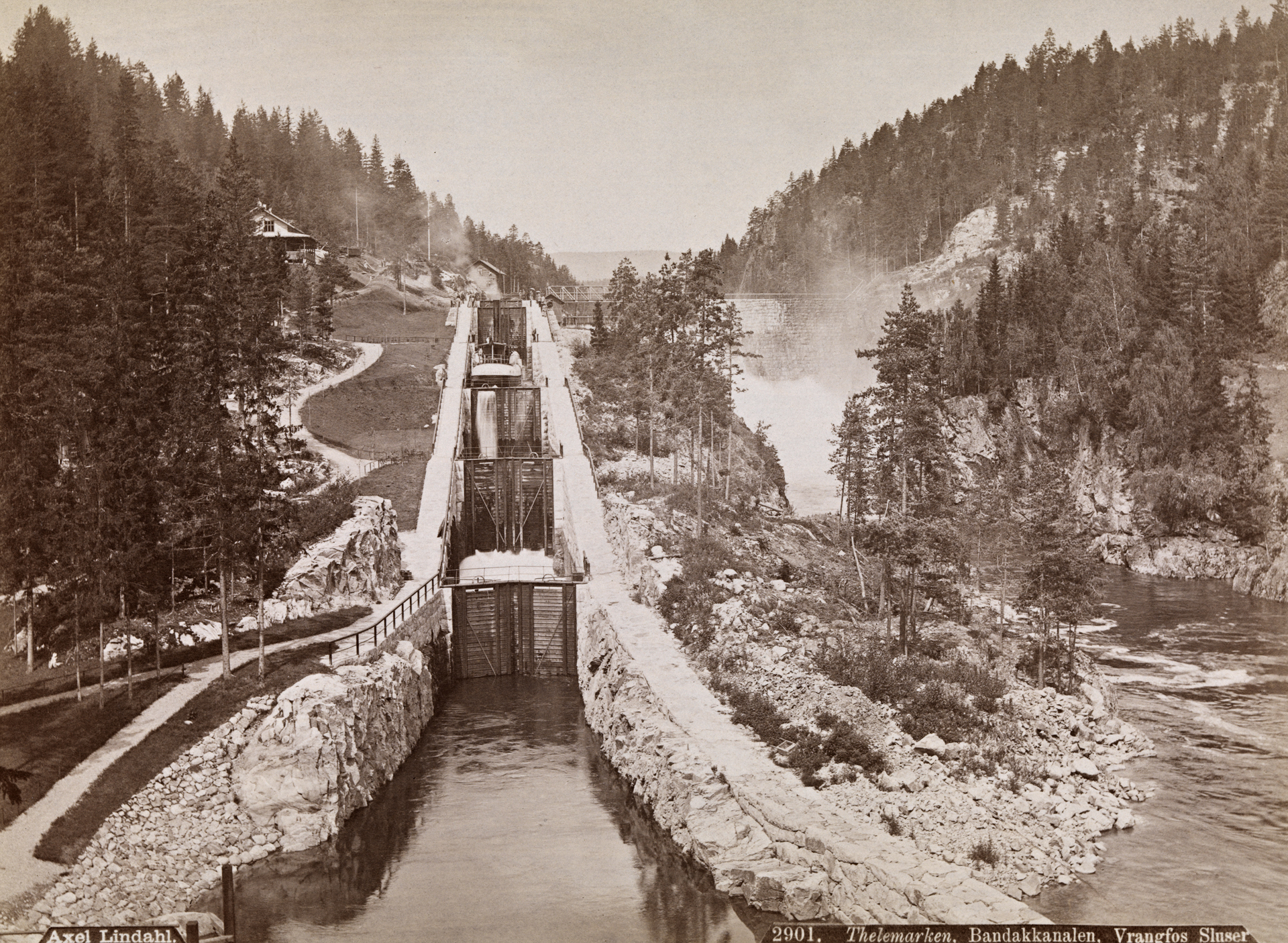 Tittel / Title: 2901. Thelemarken, Bandakkanalen, Vrangfos Sluser Dato / Date: 1880-1890 Fotograf / Photographer: Axel Lindahl (1841-1906) Sted / Place: Telemark, Nome, Vrangfoss Eier / Owner Institution: Nasjonalbiblioteket / National Library of Norway Lenke / Link: Bildesignatur / Image Number: bldsa_AL2901